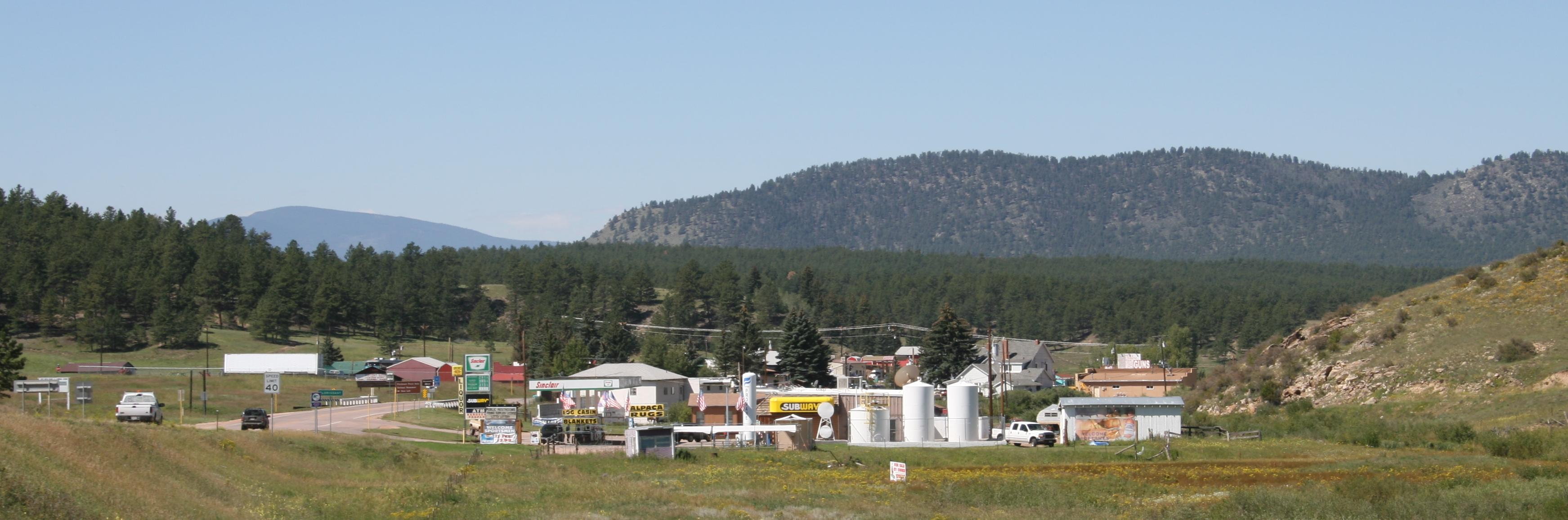 Florissant, CO, USA Panorama of Florissant as seen from the East at the US-24